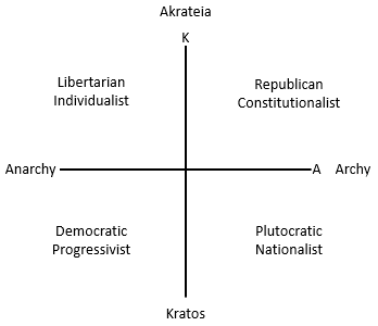 Four fundamental political inclinations based on their regard for rank (archy) and force (kratos).